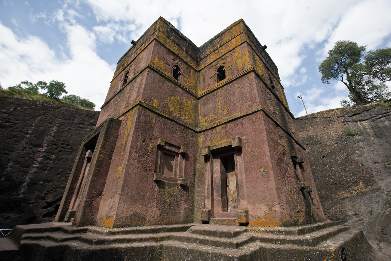 Bete Giyorgis, Lalibela, Ethiopia